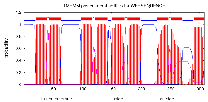 protein